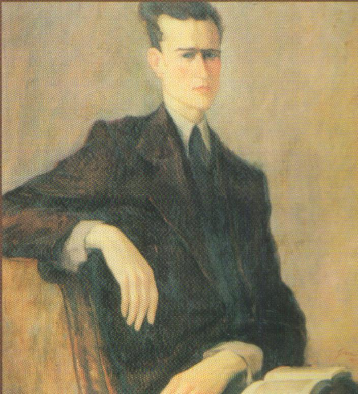 Eurialo De Michelis / Ritratto De Michelis Image has been uploaded to Italian Wikipedia, apparently by the artist-owner. It is now being copied by me to wikipedia-commons for use on an wiki entry on the fellow which I am attempting to translate